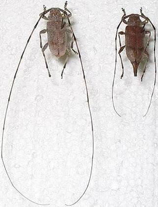 Pictures of Acanthocinus aedilis (male and female) Author = Trépas